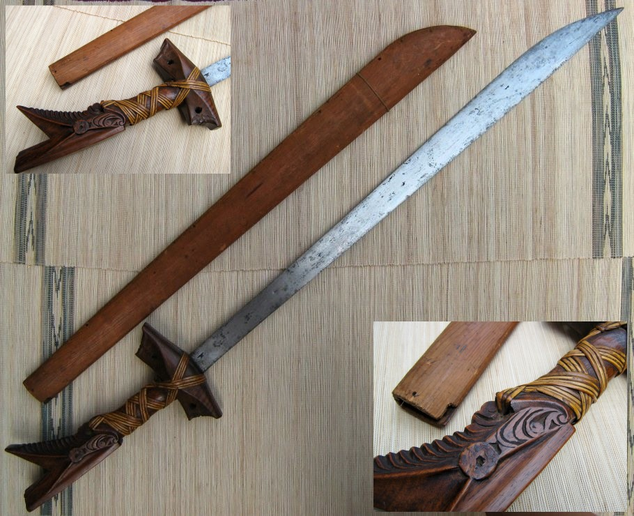 This Moro (Philippine Muslim) kampilan is believed to be late-19th century to early-20th century. Its hilt is wrapped with rattan to improve the grip. The carvings on the hilt follows the traditional Moro design called ukkil or okir. The two holes on the crossguard is where the metal "staple" (C- or U-shaped) goes, as additional protection to the wielder's hand. The sheath is made of disposable wood and is tied with simple lashings. When the sword needs to be used immediately, the sword bearer will simply strike with the sheathed sword, and the blade will cut through the lashings, thereby effecting a tactical strike without the need to unsheathe the sword. Overall length: 966 mm (38 inches); Blade length: 697 mm (27.5 inches); Maximum blade thickness 4 mm (1/8 inches). Other uploaded materials by the same author are here: (a) Luzon weapons; (b) Visayan weapons; (c) Moro weapons; and (d) Lumad (non-Moro Mindanao) weapons